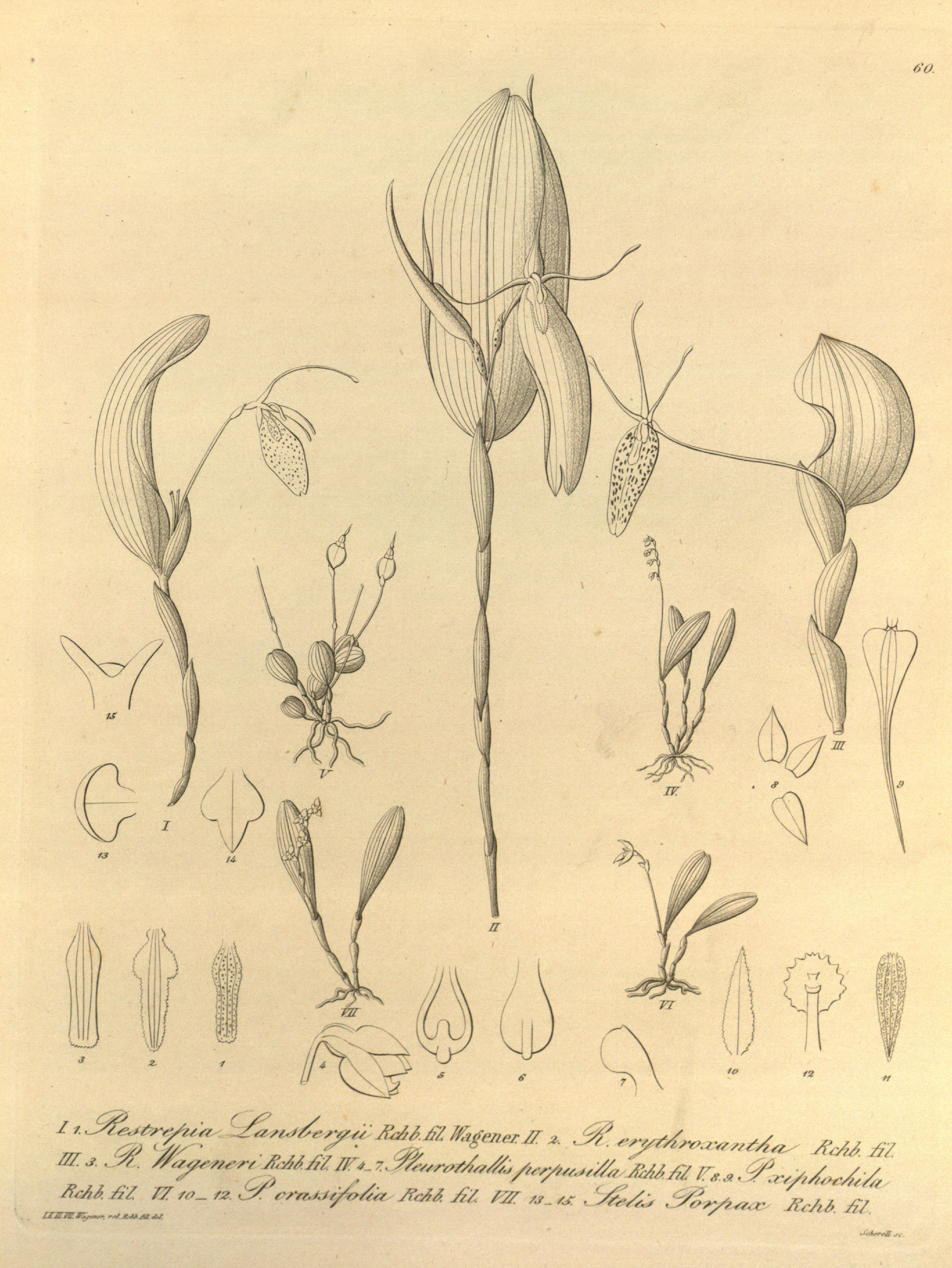 Illustration of I. Restrepia lansbergii II. Restrepia elegans as syn. Restrepia erythroxantha III. Restrepia wageneri IV. Platystele perpusilla as syn. Pleurothallis perpusilla V. Trichosalpinx xiphochila as syn. Pleurothallis xiphochila VI. Anathallis minutalis as syn. Pleurothallis crassifolia Rchb.f. VII. Stelis porpax